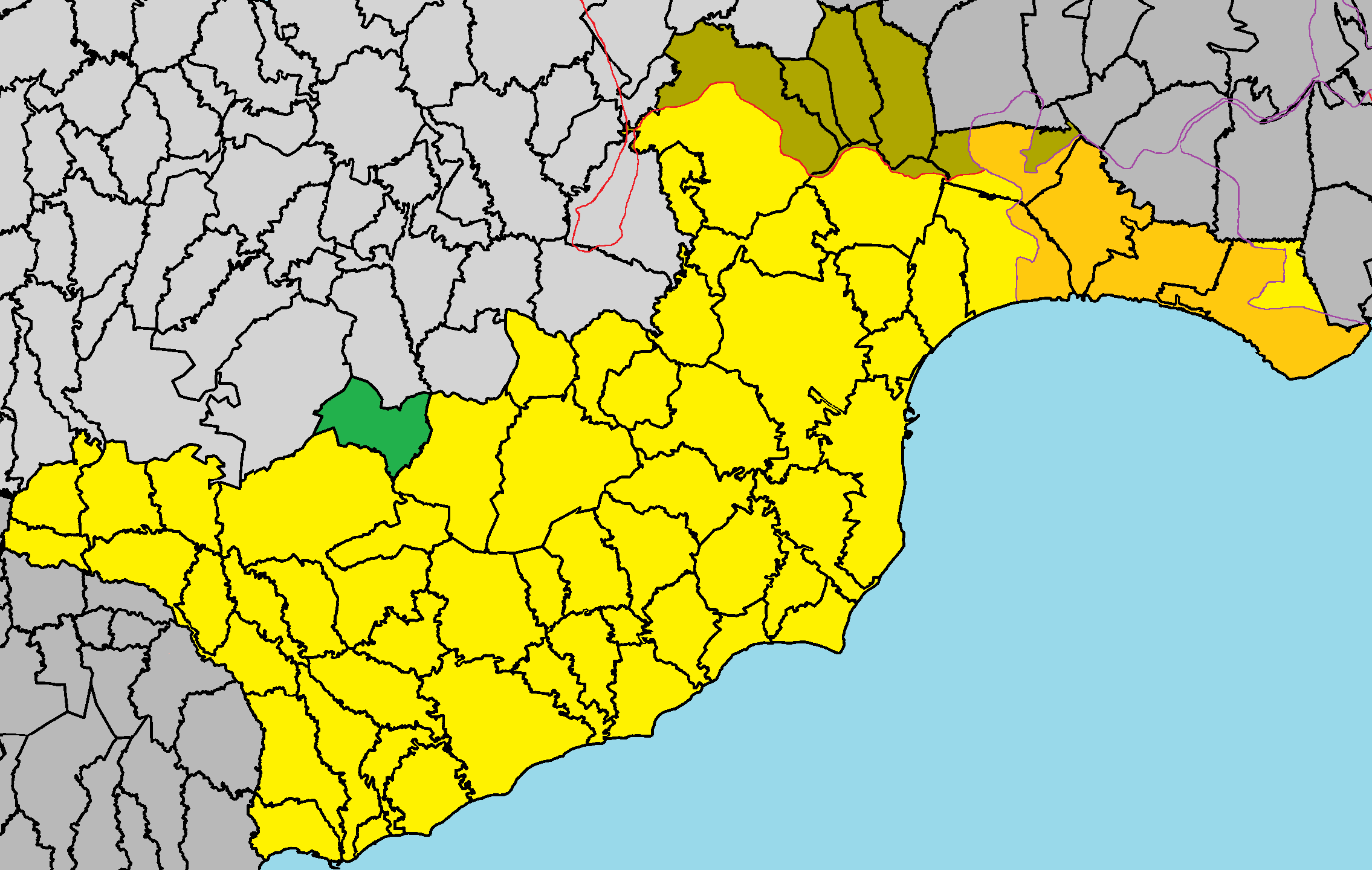 Delikipos in Larnaca District.